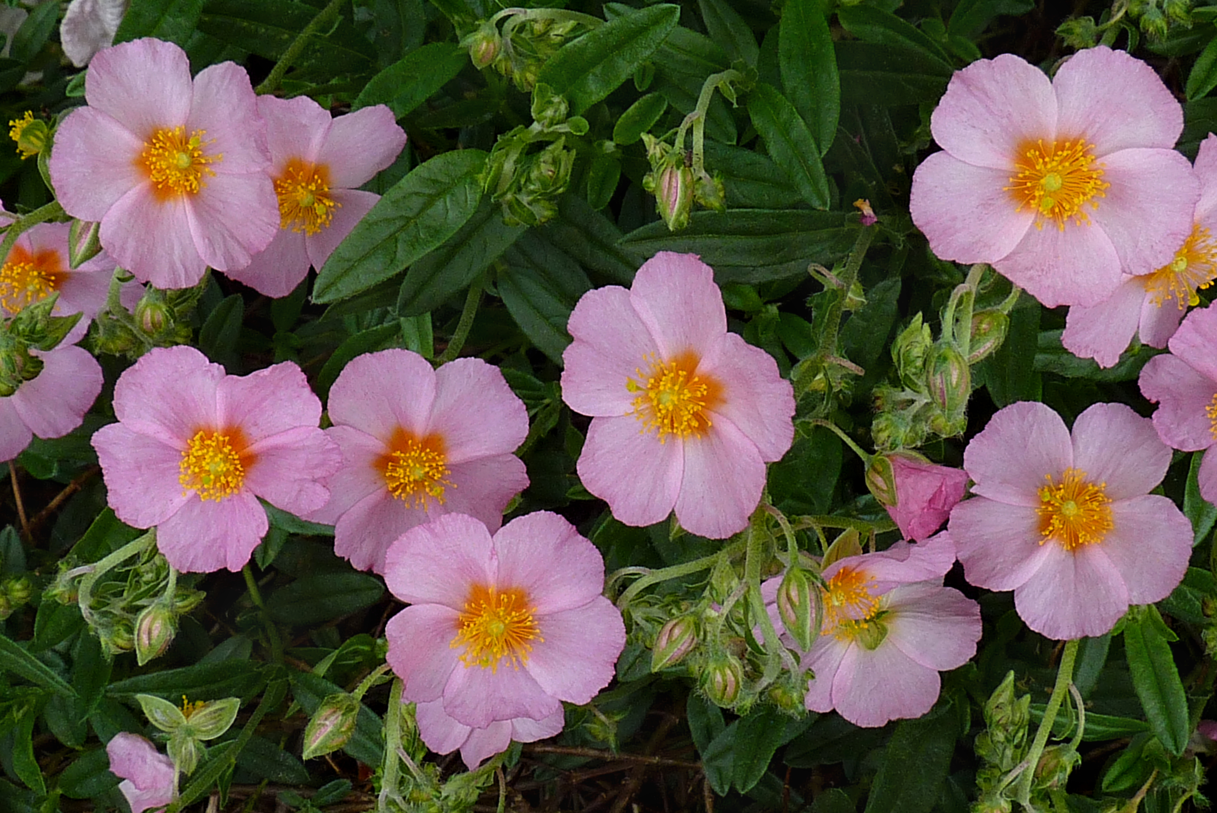 Helianthemum 'Lawrenson's Pink', in a garden in Belgium.